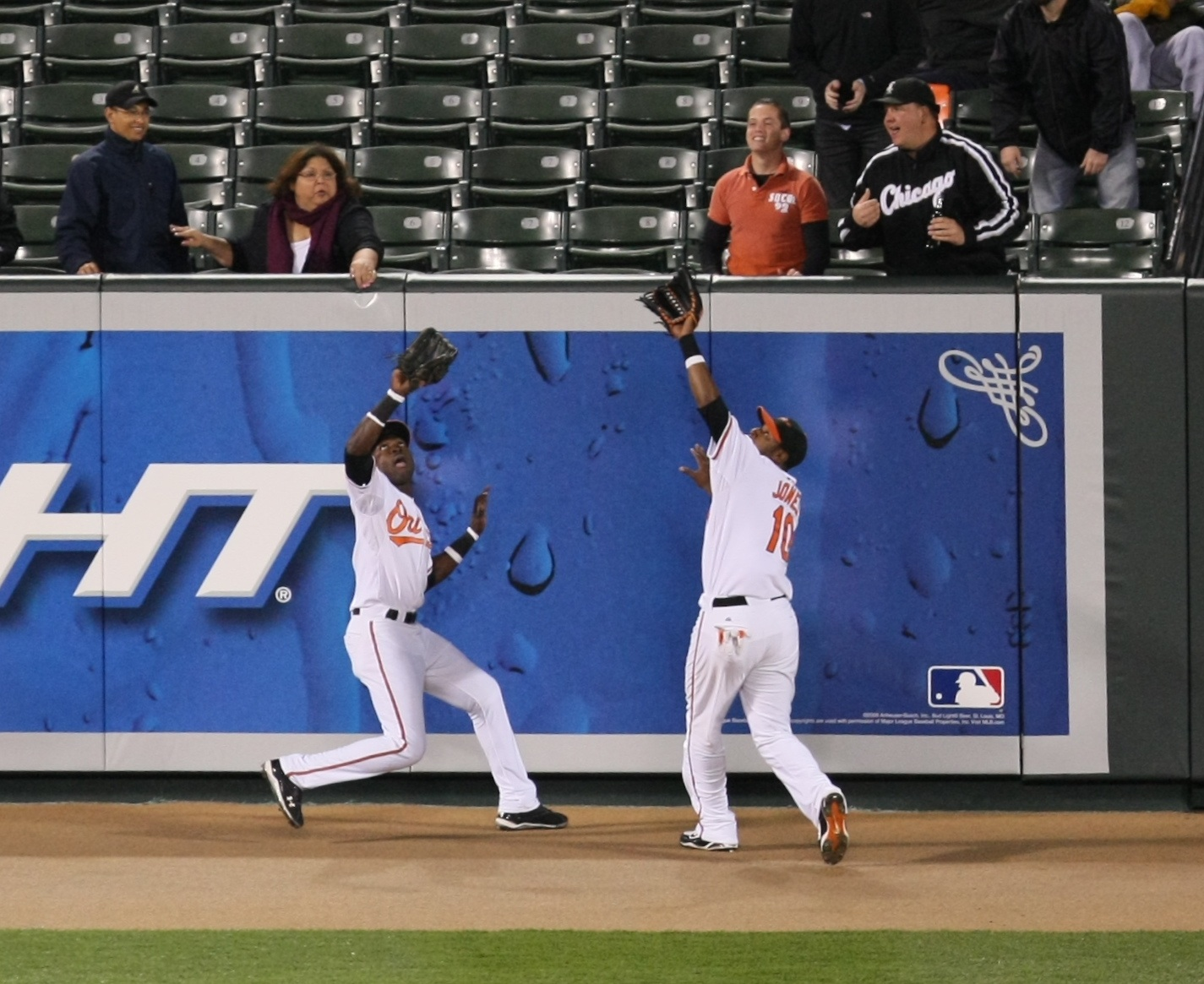 Baltimore Orioles left fielder Félix Pie (18) and center fielder Adam Jones, before colliding at the wall after Jones caught a ball hit by Chicago White Sox's Jermaine Dye to end the top of the fourth inning of a baseball game, in Baltimore.